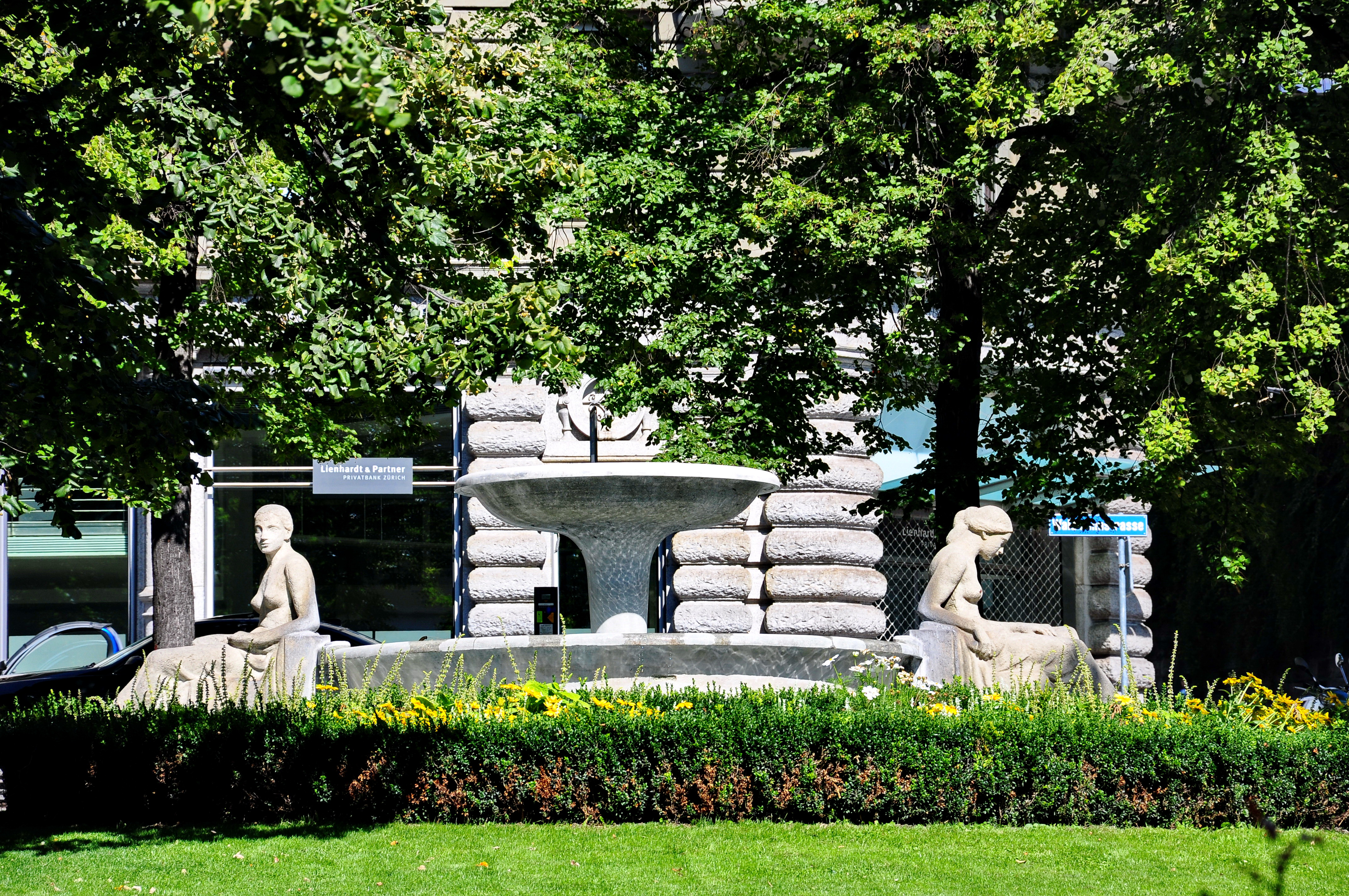 Fountain located at Rämistrasse / (Hans) Waldmann-Strasse in Zürich (Switzerland)